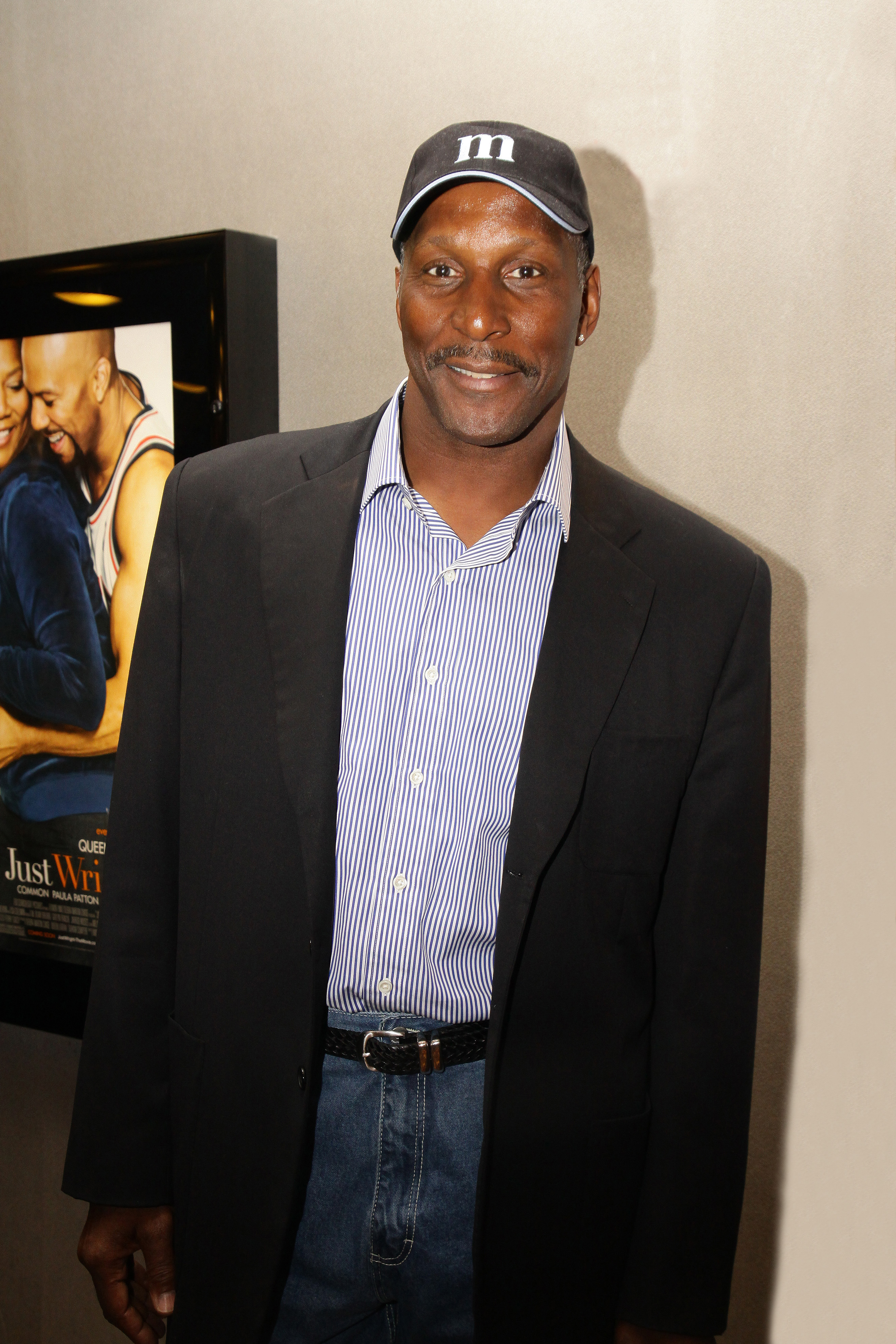 Former Chicago Bears player Otis Wilson appears at the premiere for "Just Wright" at the AMC Theatres in Chicago.